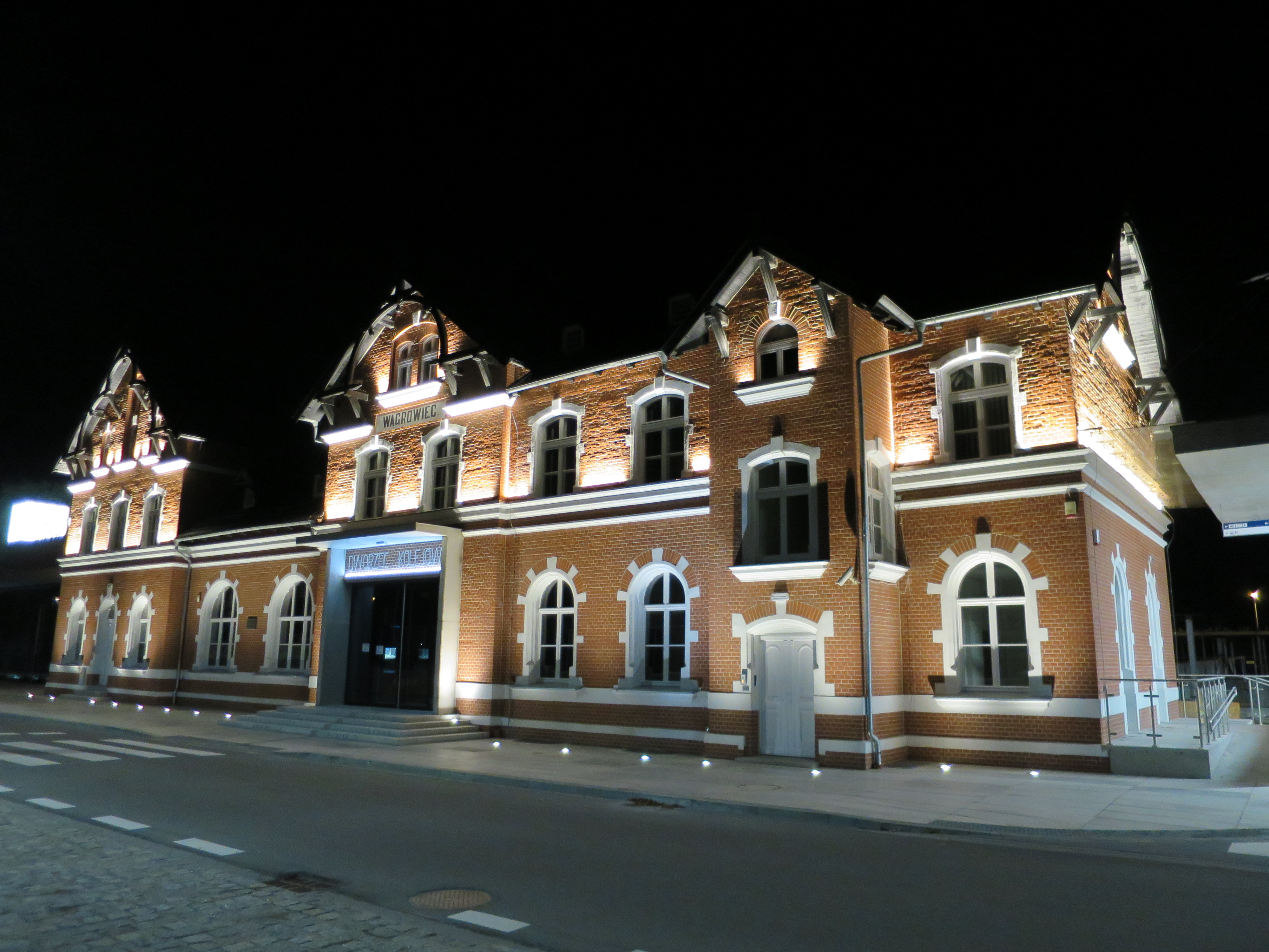 Nowy dworzec w Wągrowcu This photo was taken during Railway Wikiexpedition 2015 set up by Wikimedia Polska Association in cooperation with Fundacja Grupy PKP. You can see all photographs in category Wikiekspedycja kolejowa 2015.